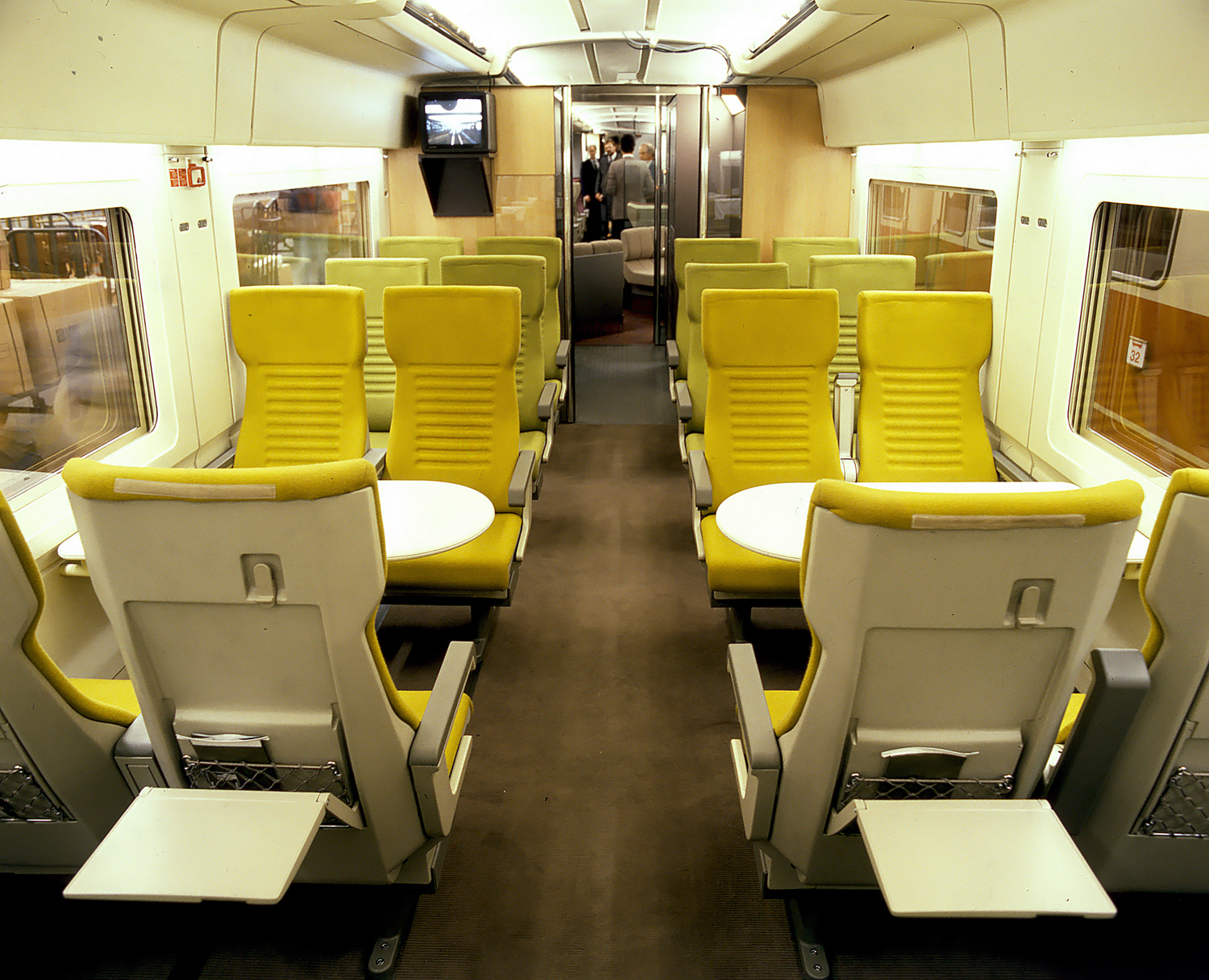 2nd class seats on the InterCityExperimental